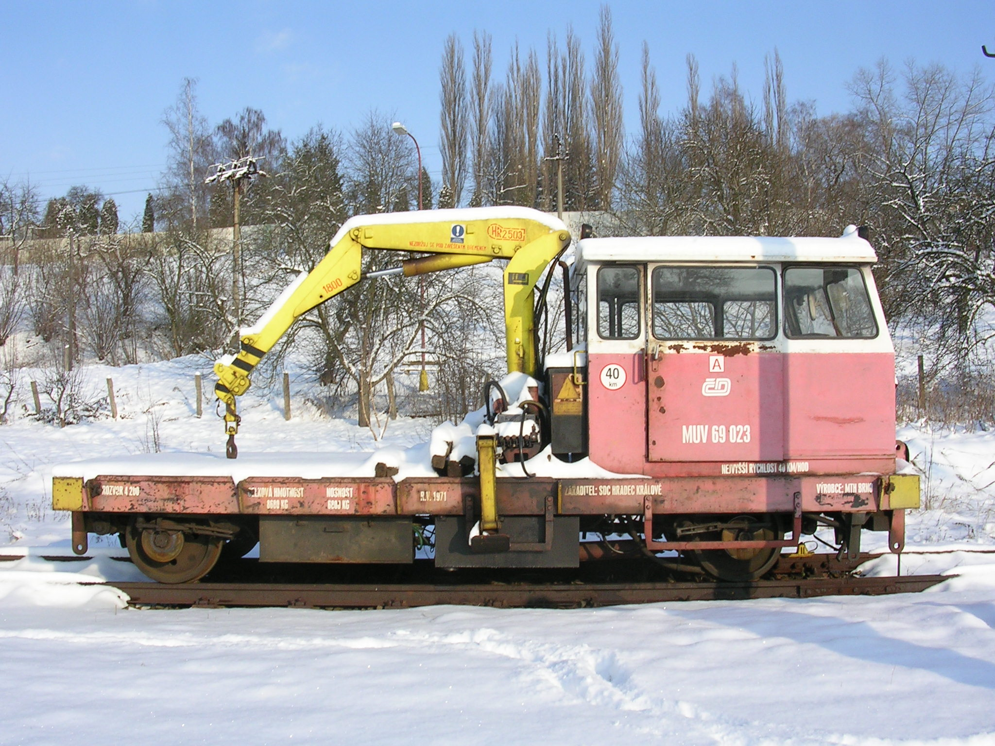 Kostelec nad Orlicí, the Czech Republic. A MUV draisine.